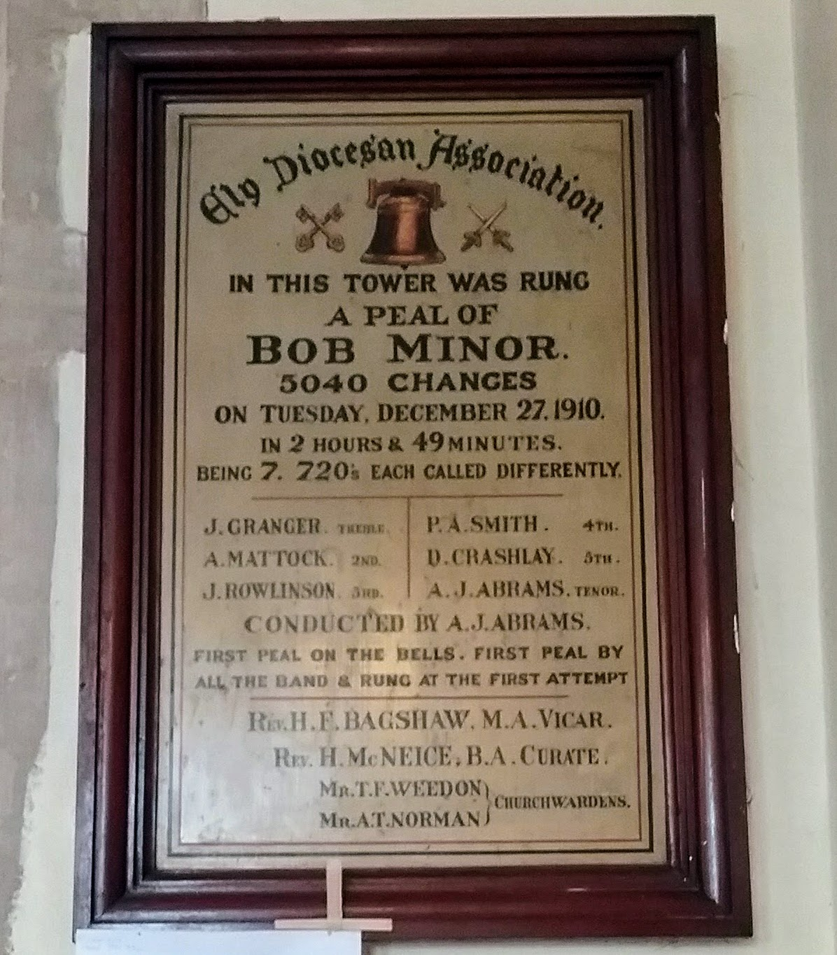 Plaque commemorating the ringing of a peal of Bob Minor in 1910 in SS Peter and Paul parish church, Chatteris, Cambridgeshire